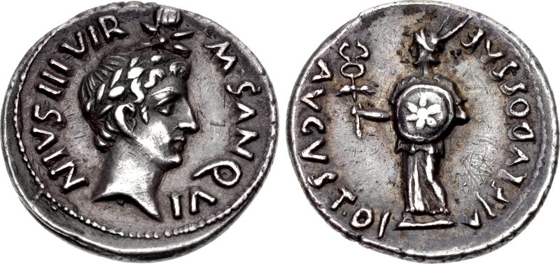 Augustus, with Divus Julius Caesar. 27 BC-AD 14. AR Denarius (20mm, 3.69 g, 5h). Rome mint. M. Sanquinius, moneyer. Struck 17 BC. AVGVST DI VI F LVDOS SAE, herald of the Ludi Saeculares (Saecular Games) standing left, wearing long robe reaching to ankles and helmet with two long feathers, and holding winged caduceus upright in right hand and round shield, ornamented with six-pointed star, in left / M • SANQVI NIVS • III • VIR, youthful, laureate head of deified Julius Caesar right; above, a comet with four rays and a tail. RIC I 340; RSC -; BMCRE 70 = BMCRR Rome 4584; BN 273-276. Near EF, toned, a few scrapes under tone. From the Goldman Roman Imperatorial Collection. Ex Triton XI (8 January 2008), lot 773. The Ludi Saeculares or Secular Games had been celebrated in Rome since the 4th century BC. The disturbed times did not permit them to be held in 46 BC, and they were not reinstated by Augustus until 17 BC, when the first coins marking the event were struck.